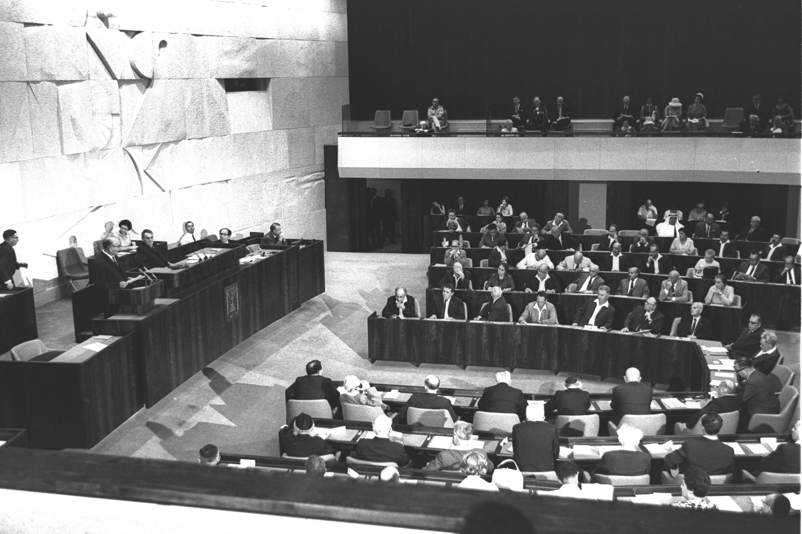 PRIME MINISTER ESHKOL SPEAKING DURING THE FIRST SESSION OF THE KNESSET IN ITS NEW BUILDING IN JERUSALEM.